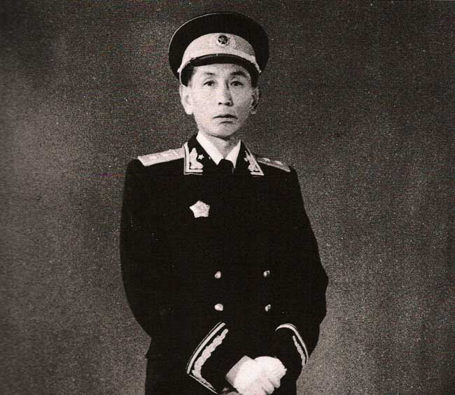 Ngabo dressed as a PLA General, 1955